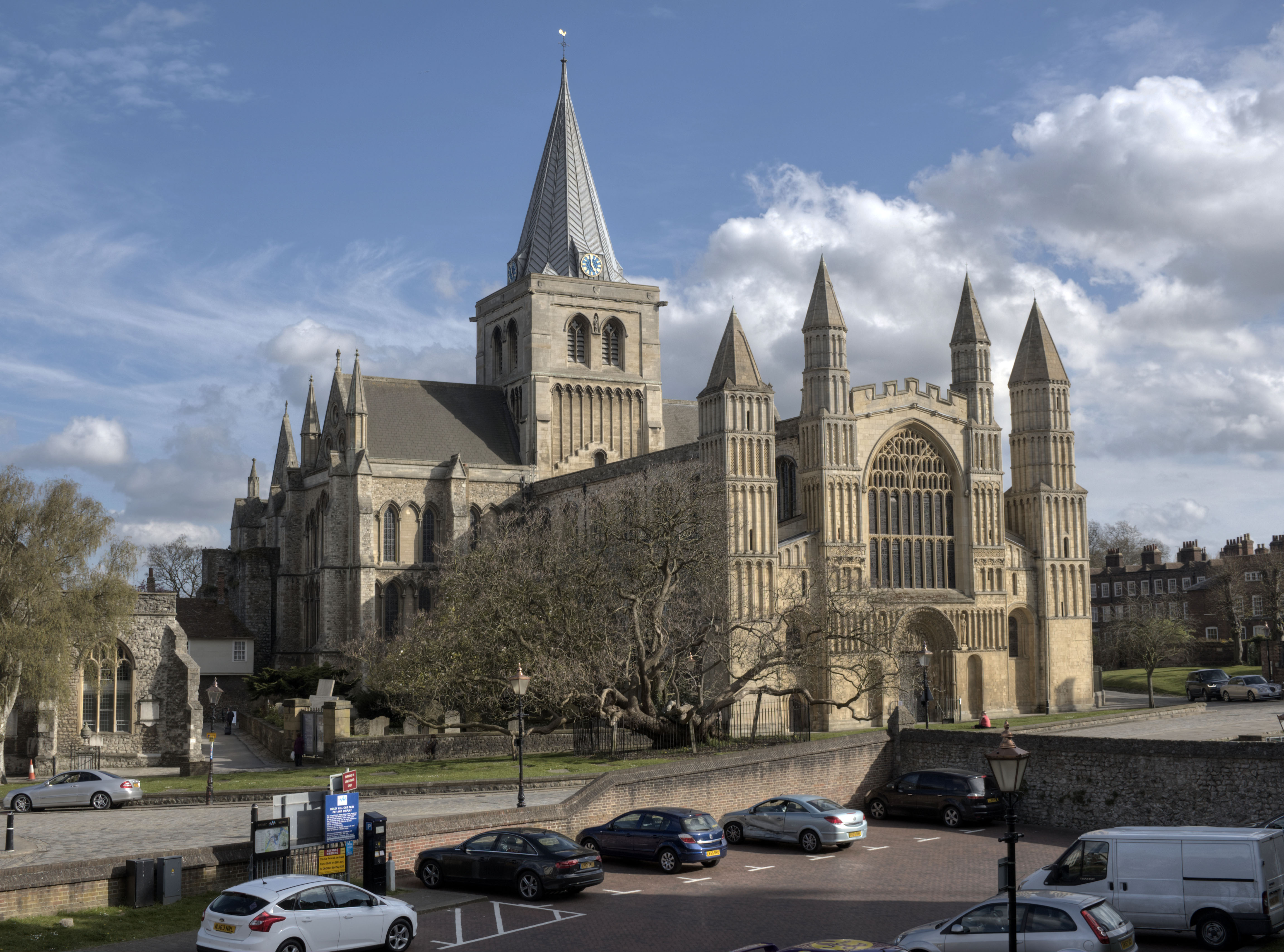 Rochester Cathedral, northwest view